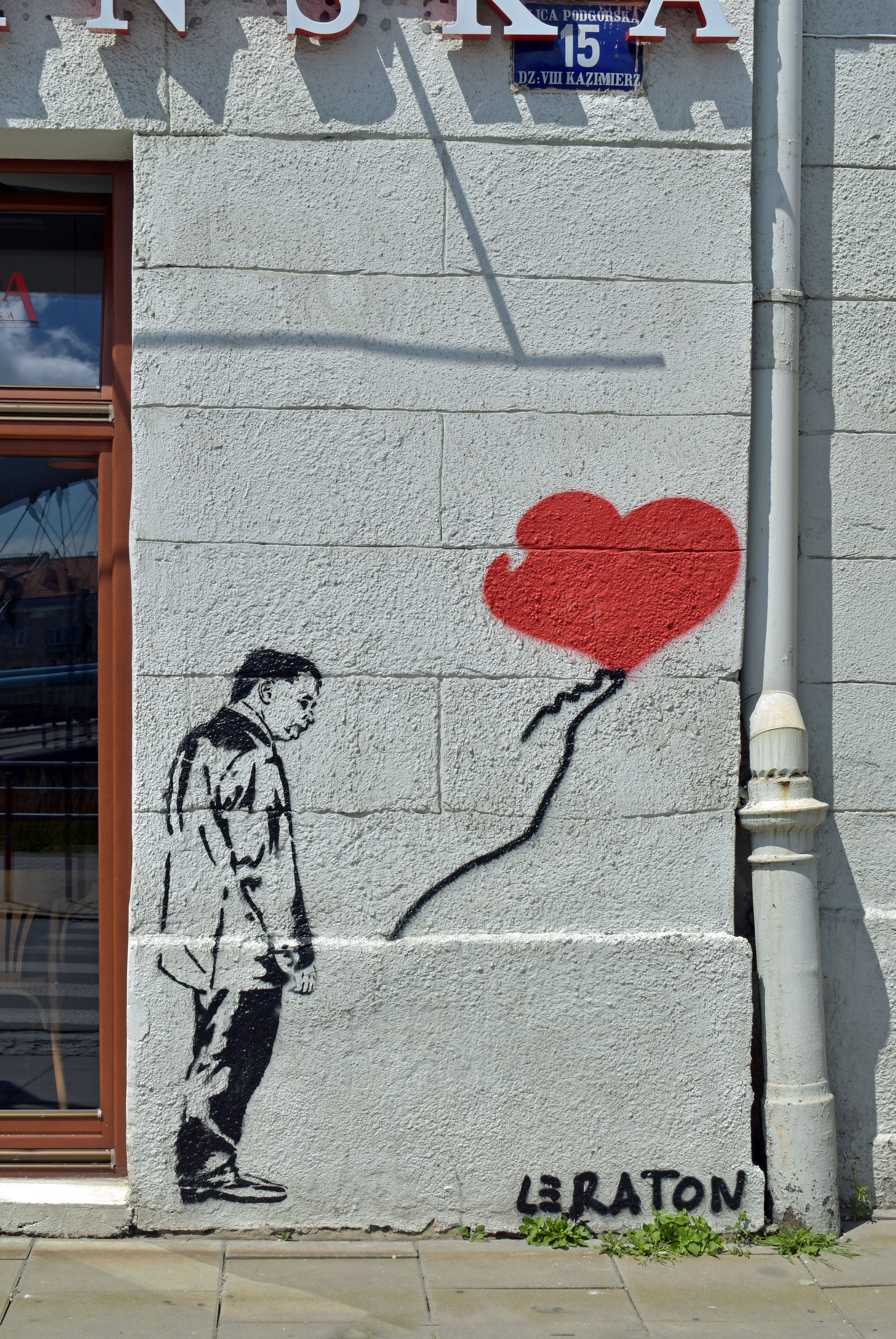 Graffiti, 15 Podgórska street, Kazimierz, Krakow, Poland